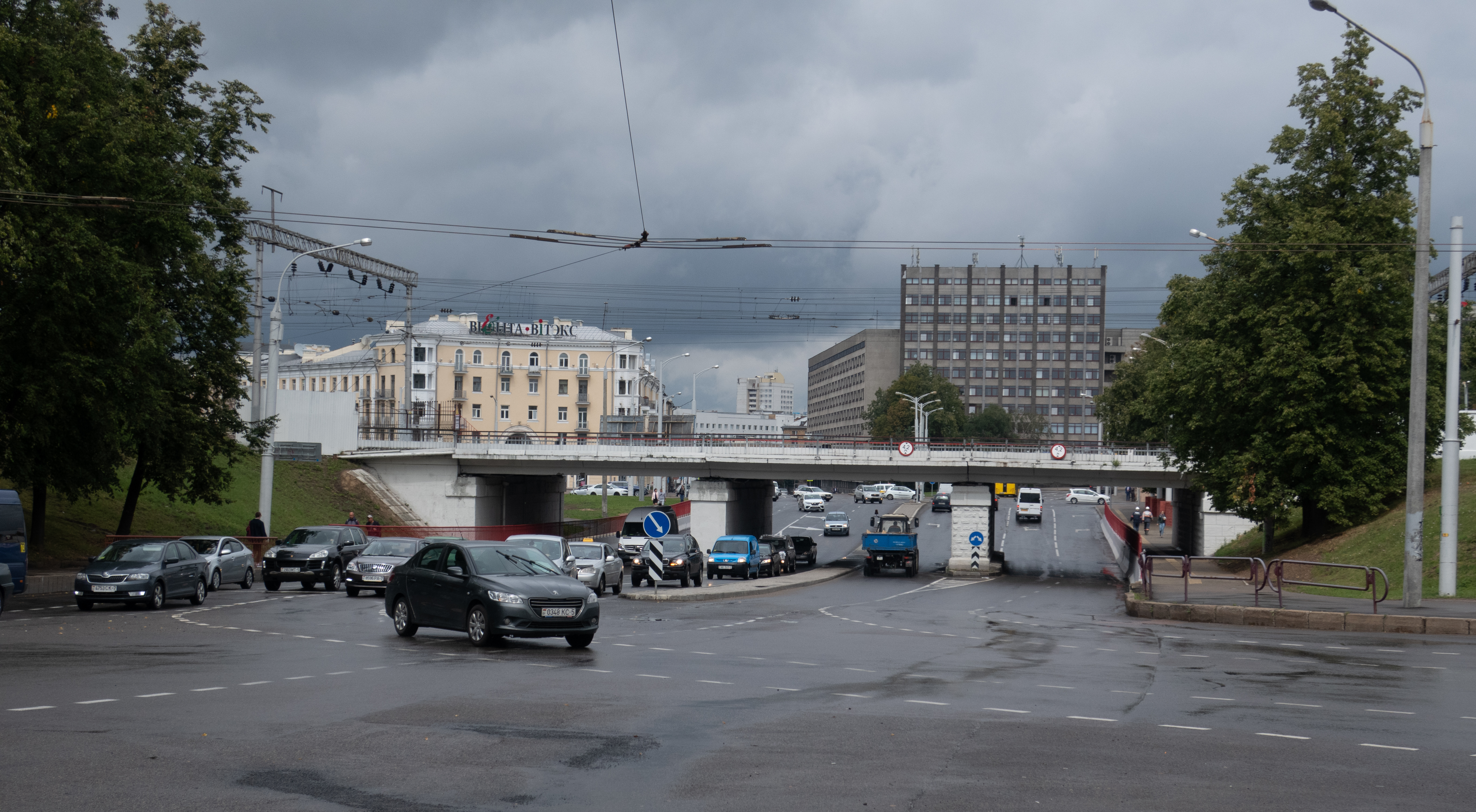 Maskoŭskaja and Talstoha streets (Minsk, Belarus)